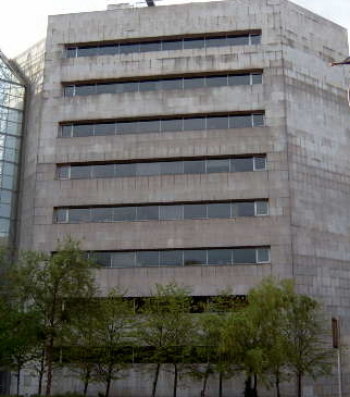 Civic Offices on Wood Quay in Dublin. My image. no c/r